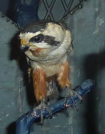 Collared Falconet (Microhierax caerulescens)